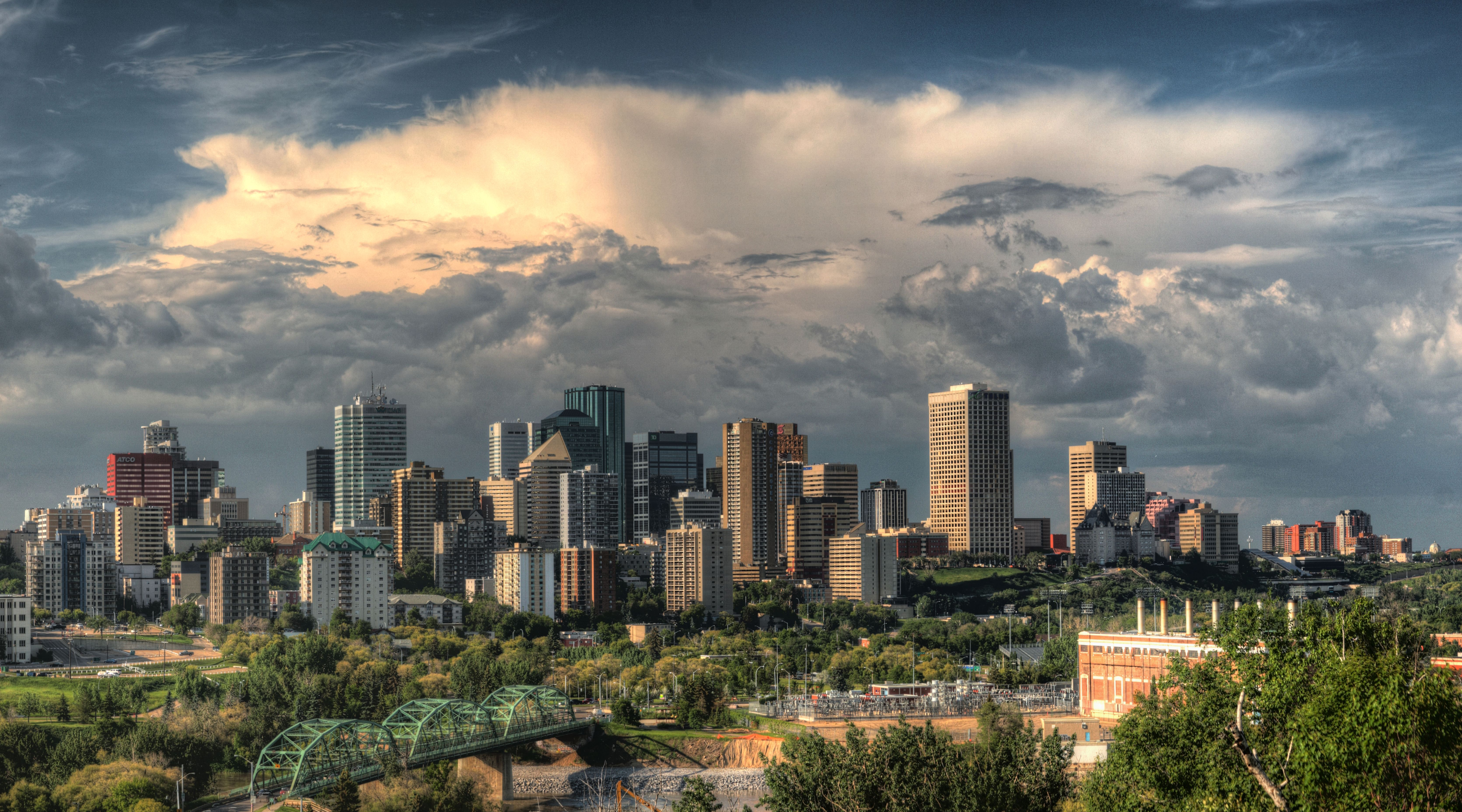 The downtown skyline of Edmonton, Alberta, Canada.